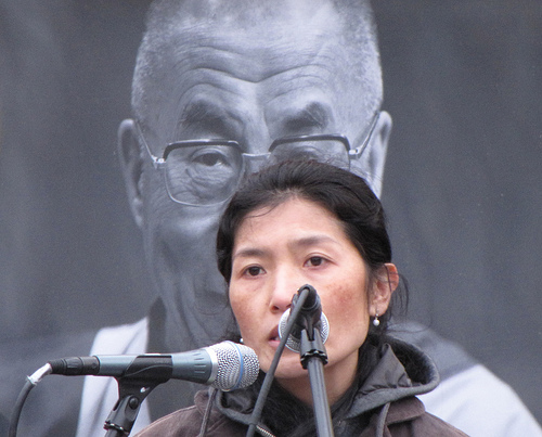 Ngawang_Sangdrol Speaking in NYC